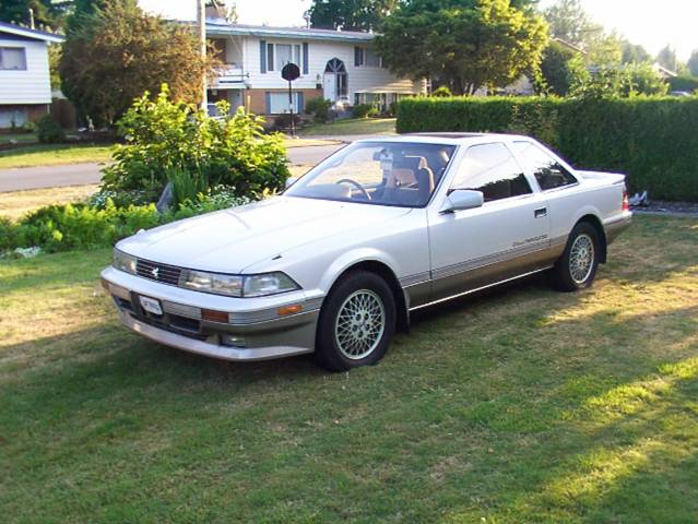 Toyota Soarer (Japanese grey import), photographed in Canada.